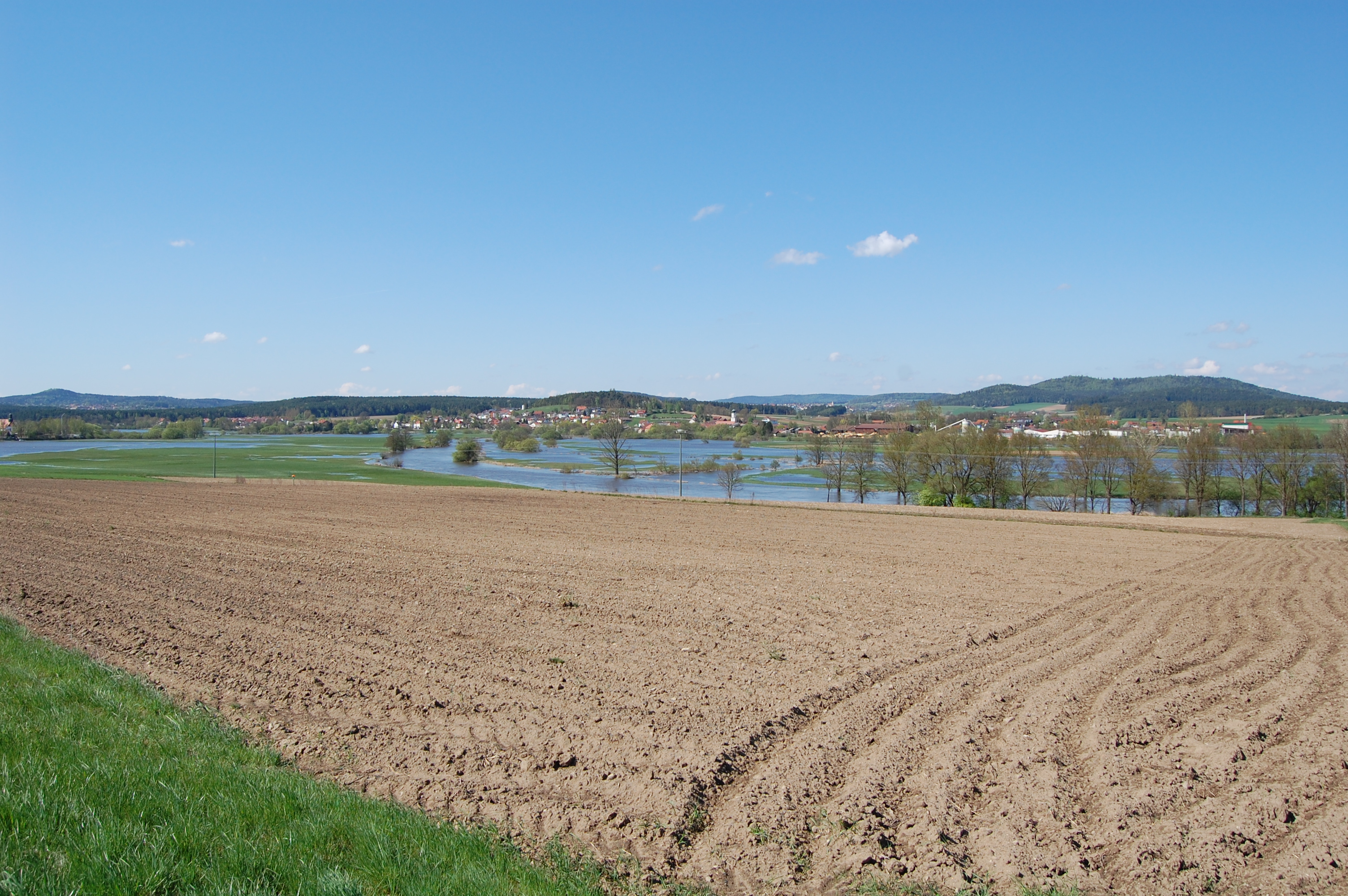 Regentalaue near Poesing by high water